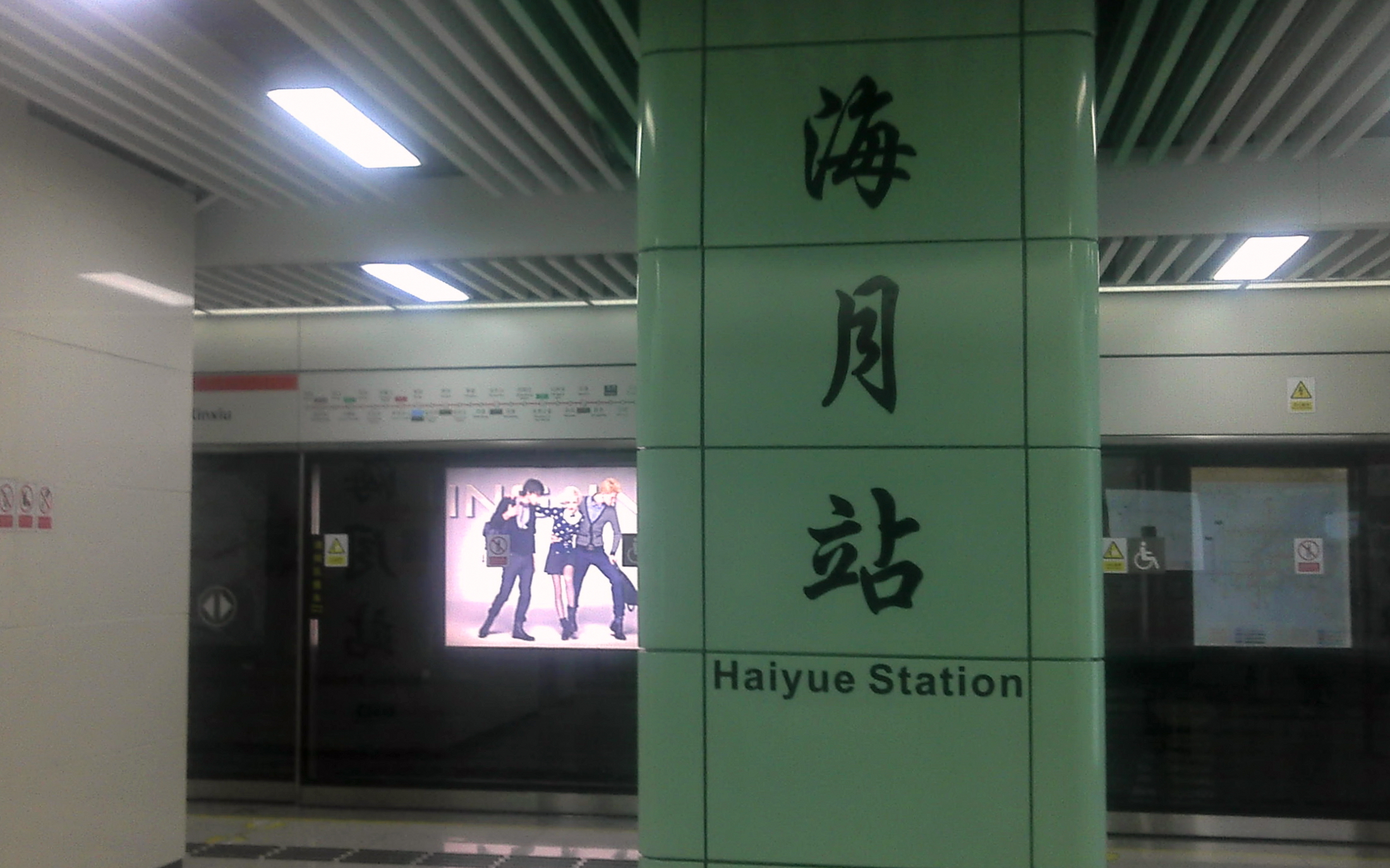 This photo was taken as Oct 22, 2011.